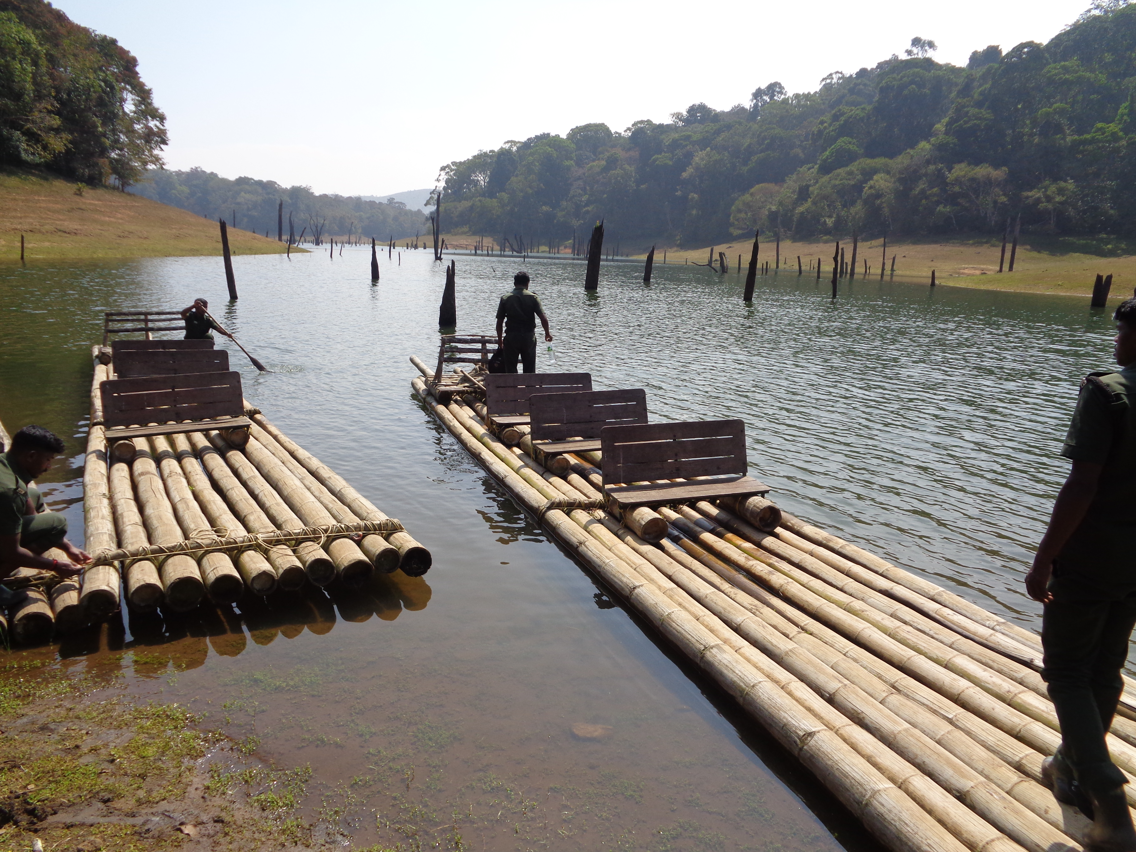 Rafting in Periyar Lake